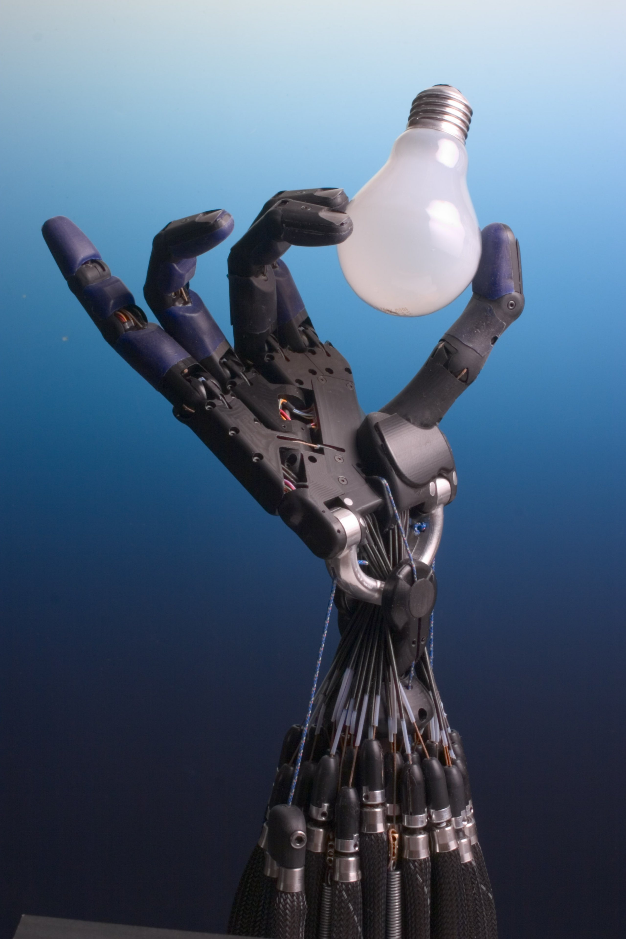 Shadow Dexterous Robot Hand holding a lightbulb